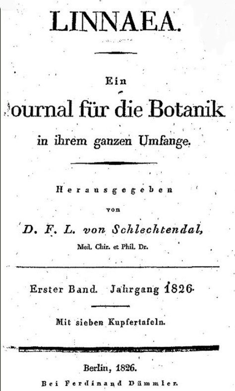 Front page of first volumen of periodic "Linnaea" (published 1826-1882)